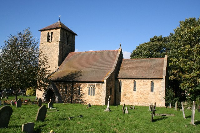 All Saints' parish church, Bracebridge, Lincoln. The nave and west tower are Saxon; the chancel Early English.